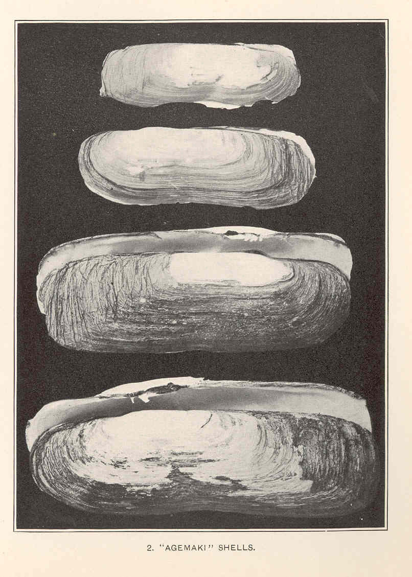 Agemaki Shells Subject: Razor clams, Shells Tag: Shellfish